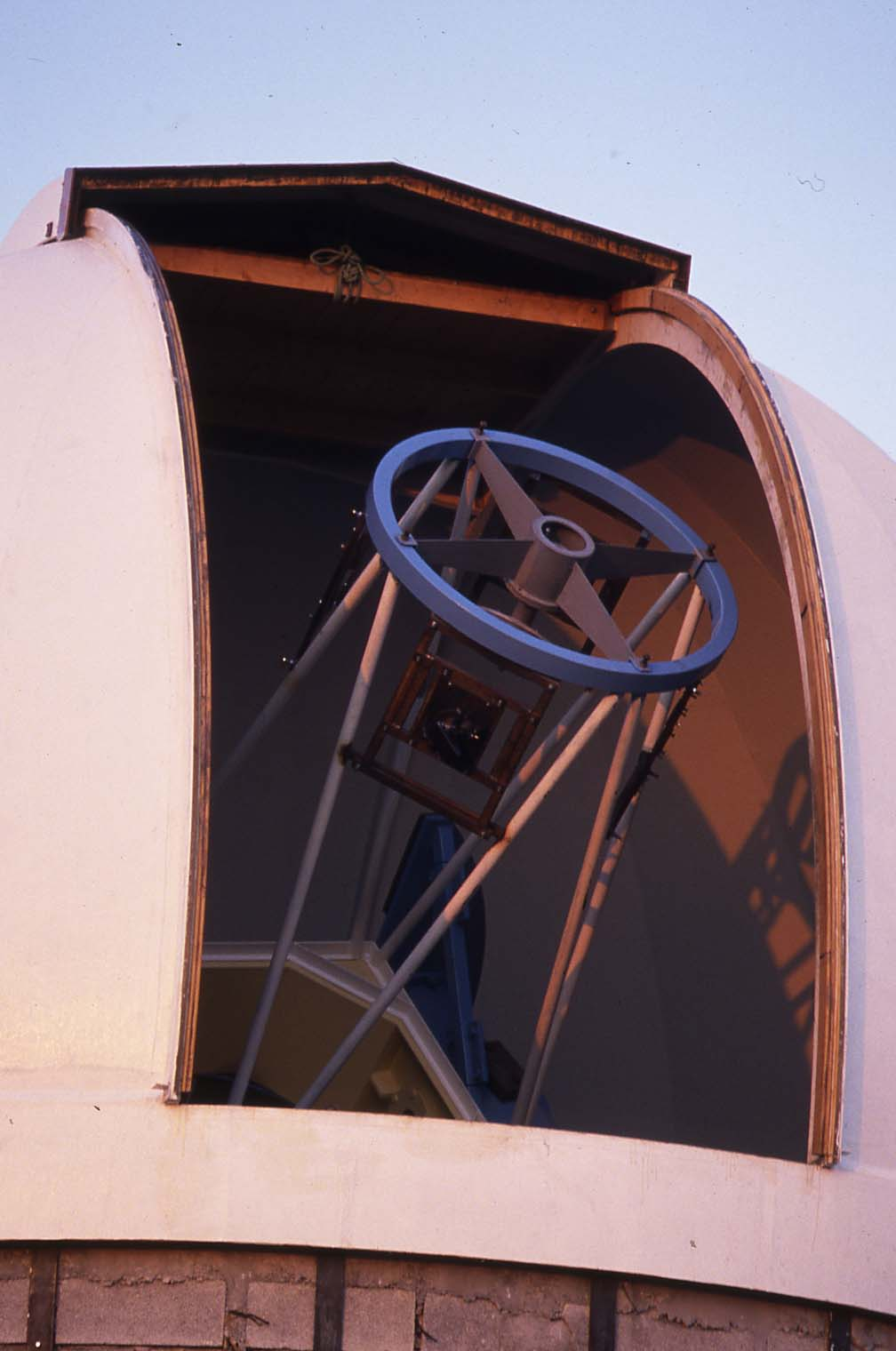 T1006 1006mmNewtonian telescope by Dany Cardoen, Puimichel